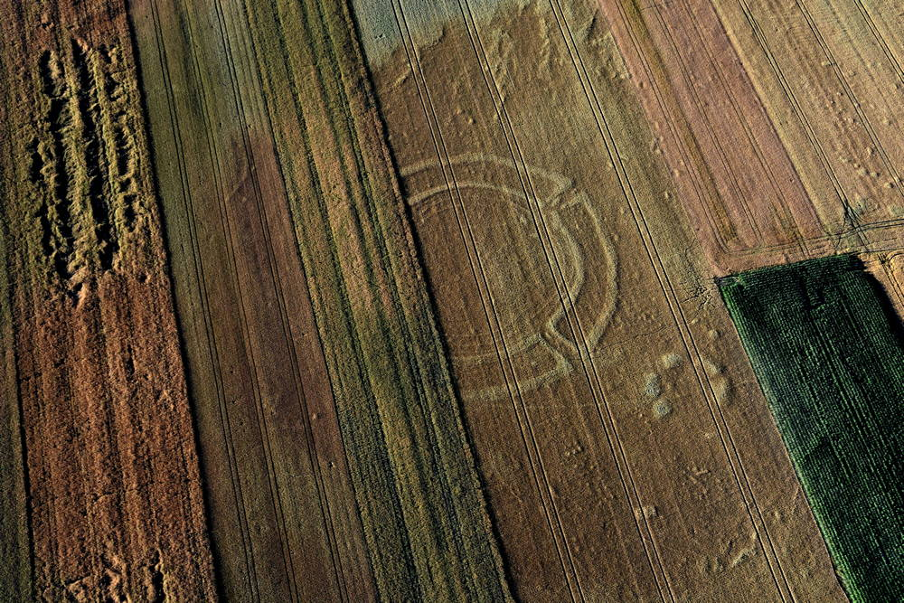 Aerial image of a Neolithic rondel enclosure from Drzemlikowice, SW Poland revealing a series of broad and narrow curvilinear crop marks which are caused by subsurface man-made changes in the soil